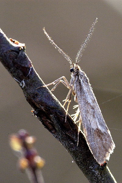 Picture taken in Commanster, Belgian High Ardennes . Species: Diurnea lipsiella